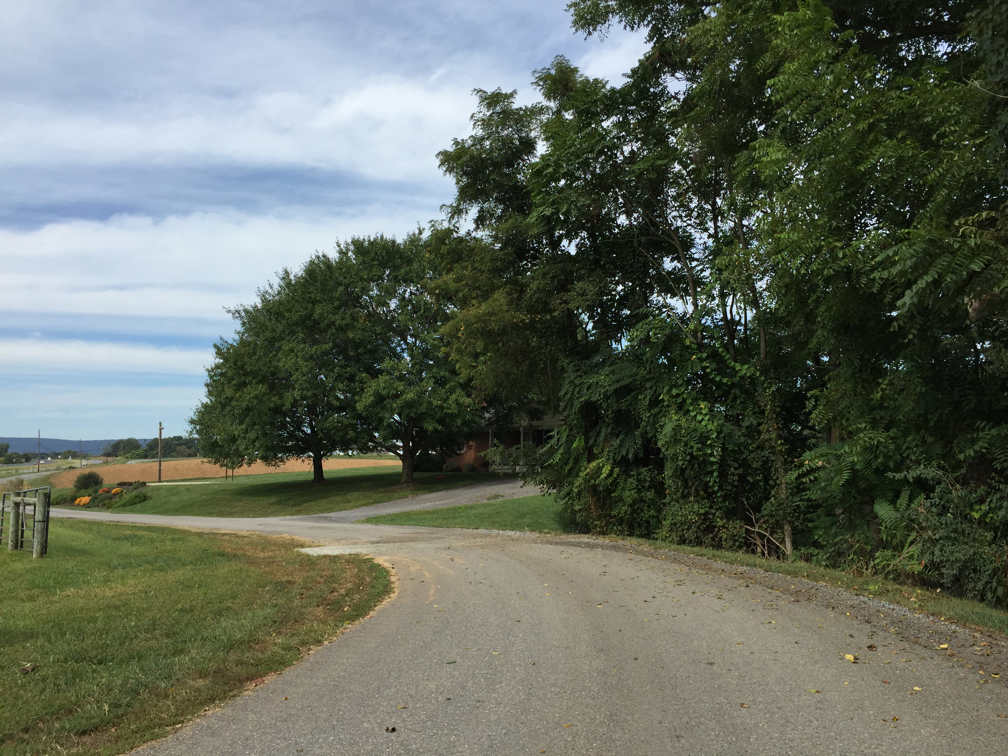 View west along Maryland State Route 872 at Maryland State Route 180 (Jefferson Pike) in Slabtown, Frederick County, Maryland